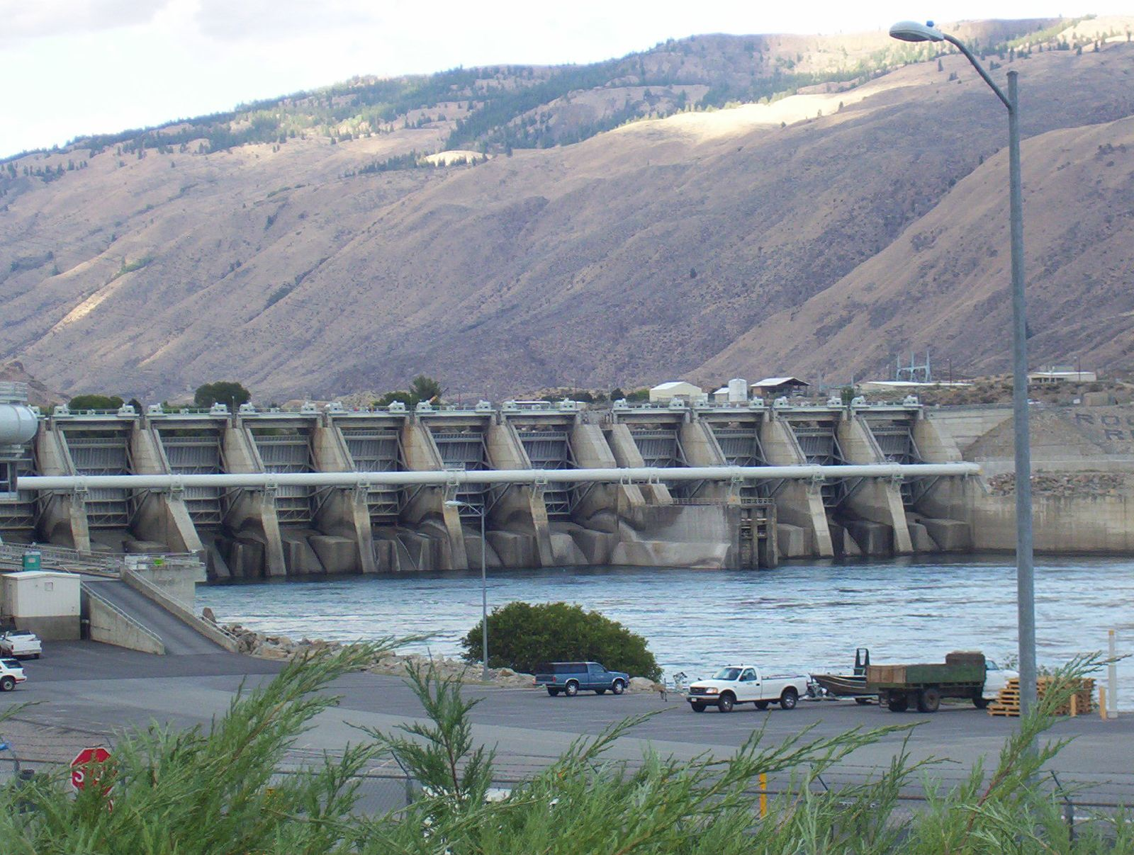 Rocky Reach Dam on the Columbia River outside Wenatchee, Washington